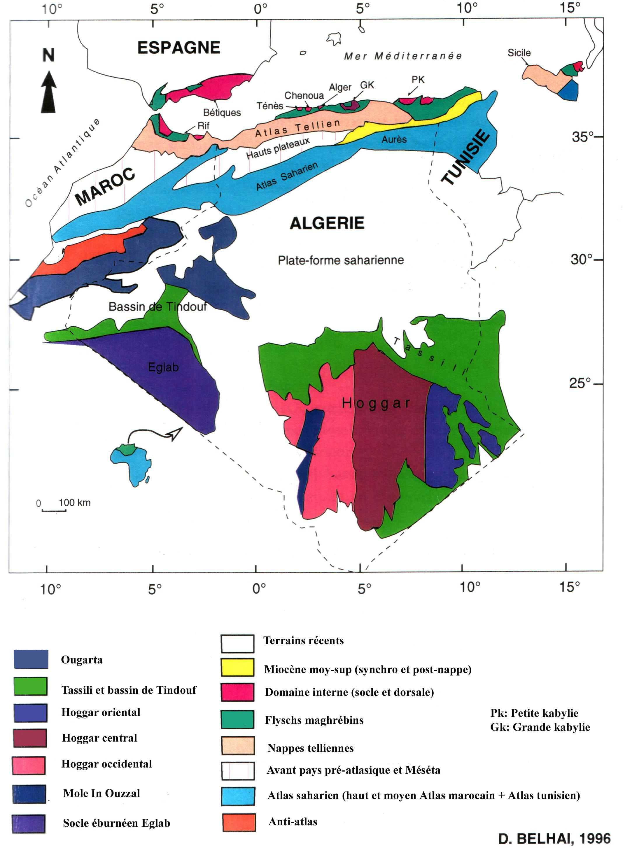 Geological structural map of Algeria